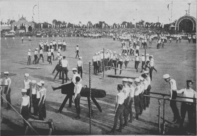 Public exercises of the youth during the 3rd "slet" of Sokol that took place in Prague-Letná from June 28 till July 1, 1895.